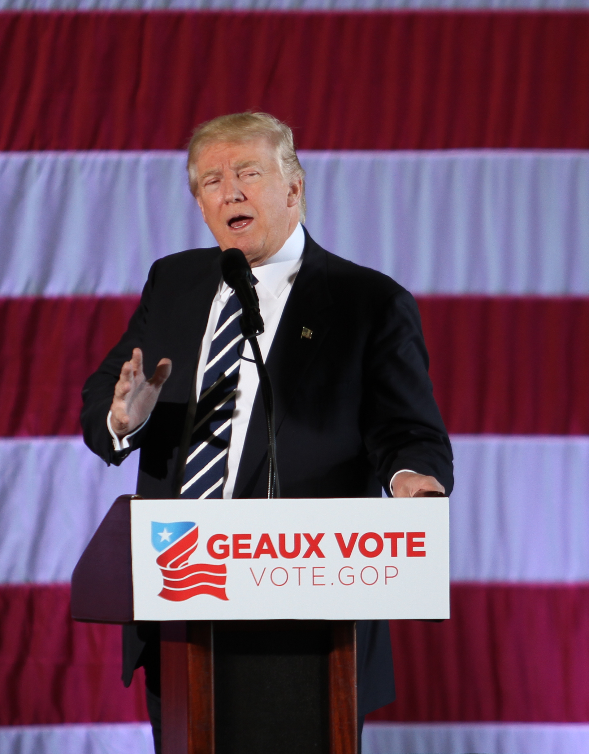 President Elect Donald Trump, LAGOP Rally, December 9, 2016, Dow Hangar, Baton Rouge, Louisiana, Tammy Anthony Baker, Photographer